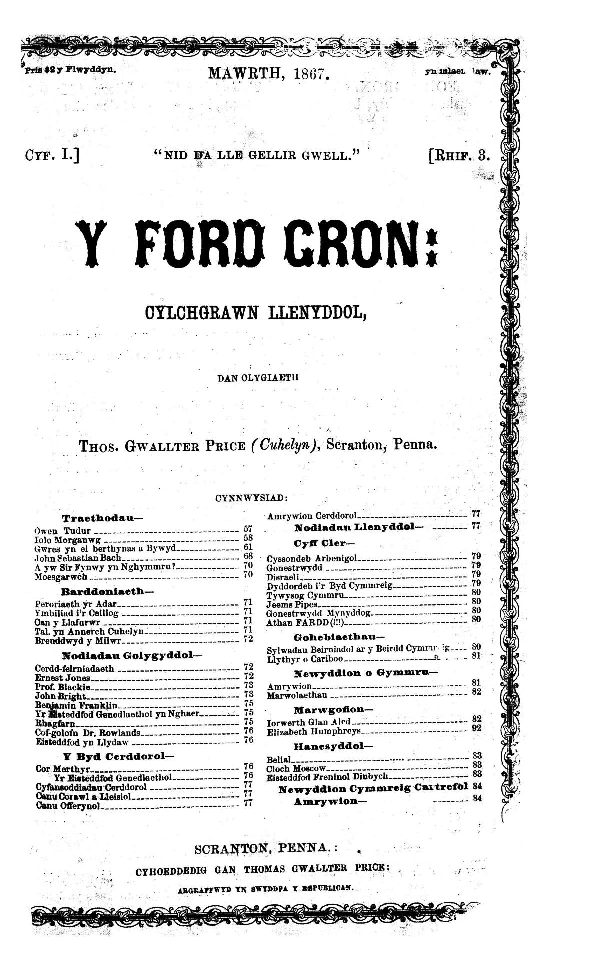 A monthly Welsh language literary periodical serving the Welsh-American. The periodical's main contents were literary articles, reviews, music, poetry and news from Wales.The periodical was jointly edited by Thomas Gwallter Price (Cuhelyn, 1829-1869) and William Aubrey Powell (c.1838-1890) until February 1867 and subsequently by Thomas Gwallter Price.